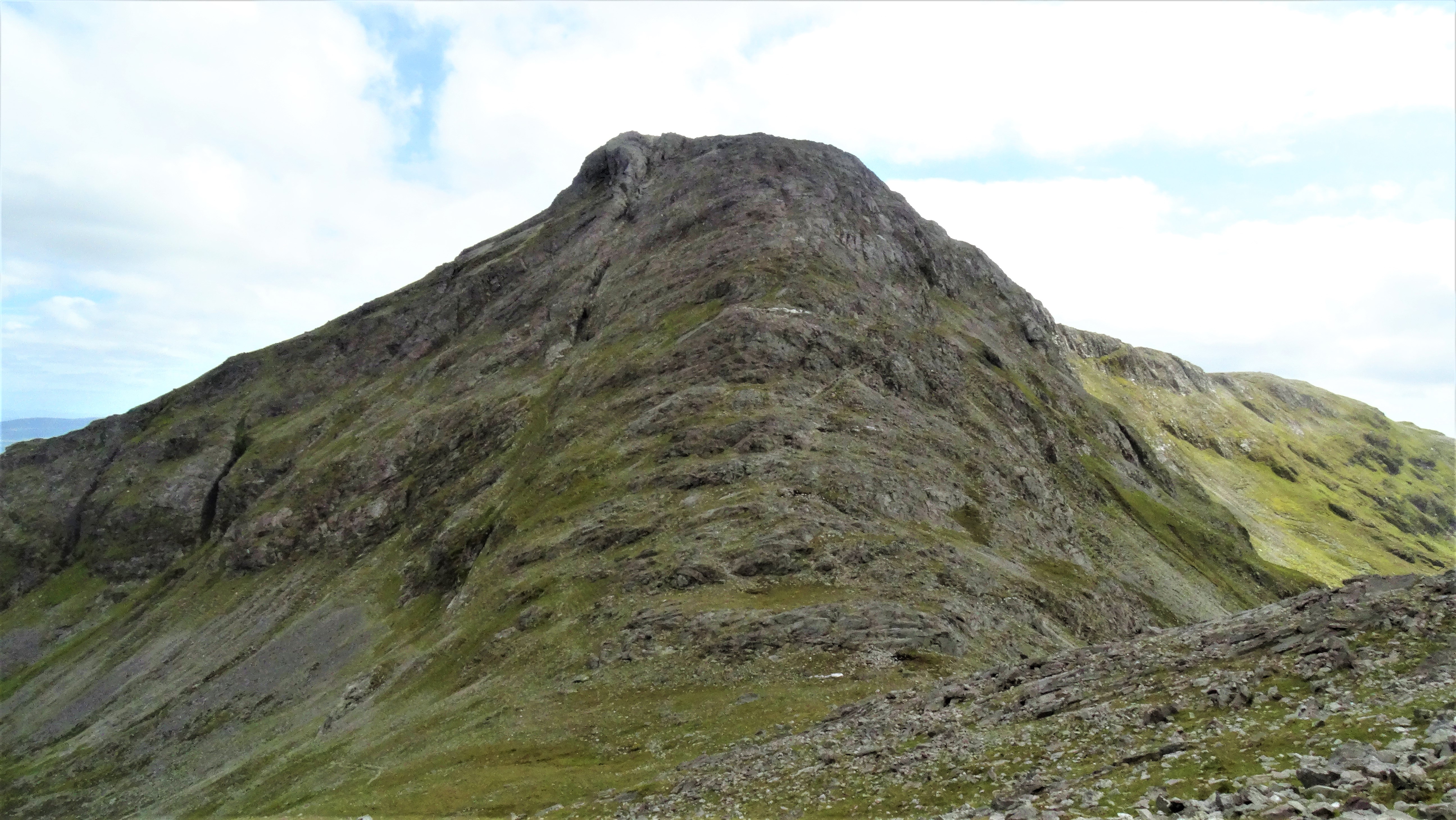 Bengower's northern ridge as viewed from Benbreen, Connemara, Ireland